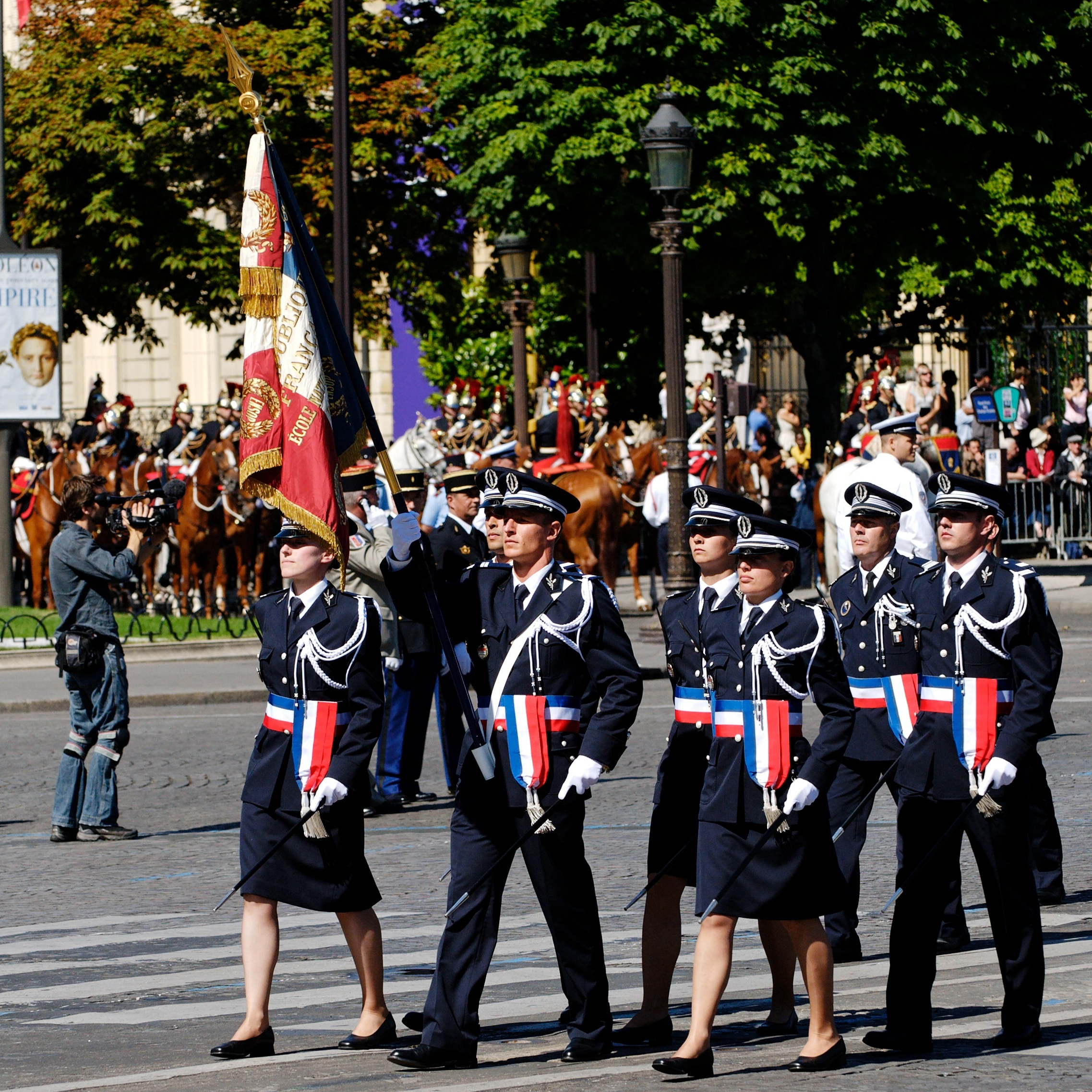 Flag guard of the French National Police Academy, Bastille Day 2008 military parade on the Champs-Élysées, Paris.